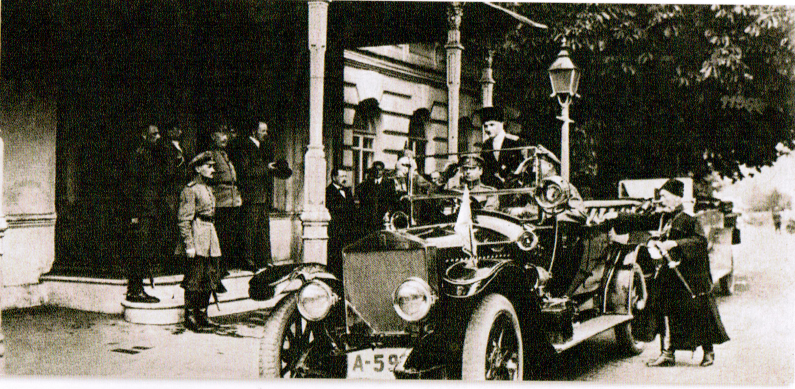 Hetman Skoropadsky in Kyiv. Is second from the left - general-khorunzhiy K. Prisovsky, 1918